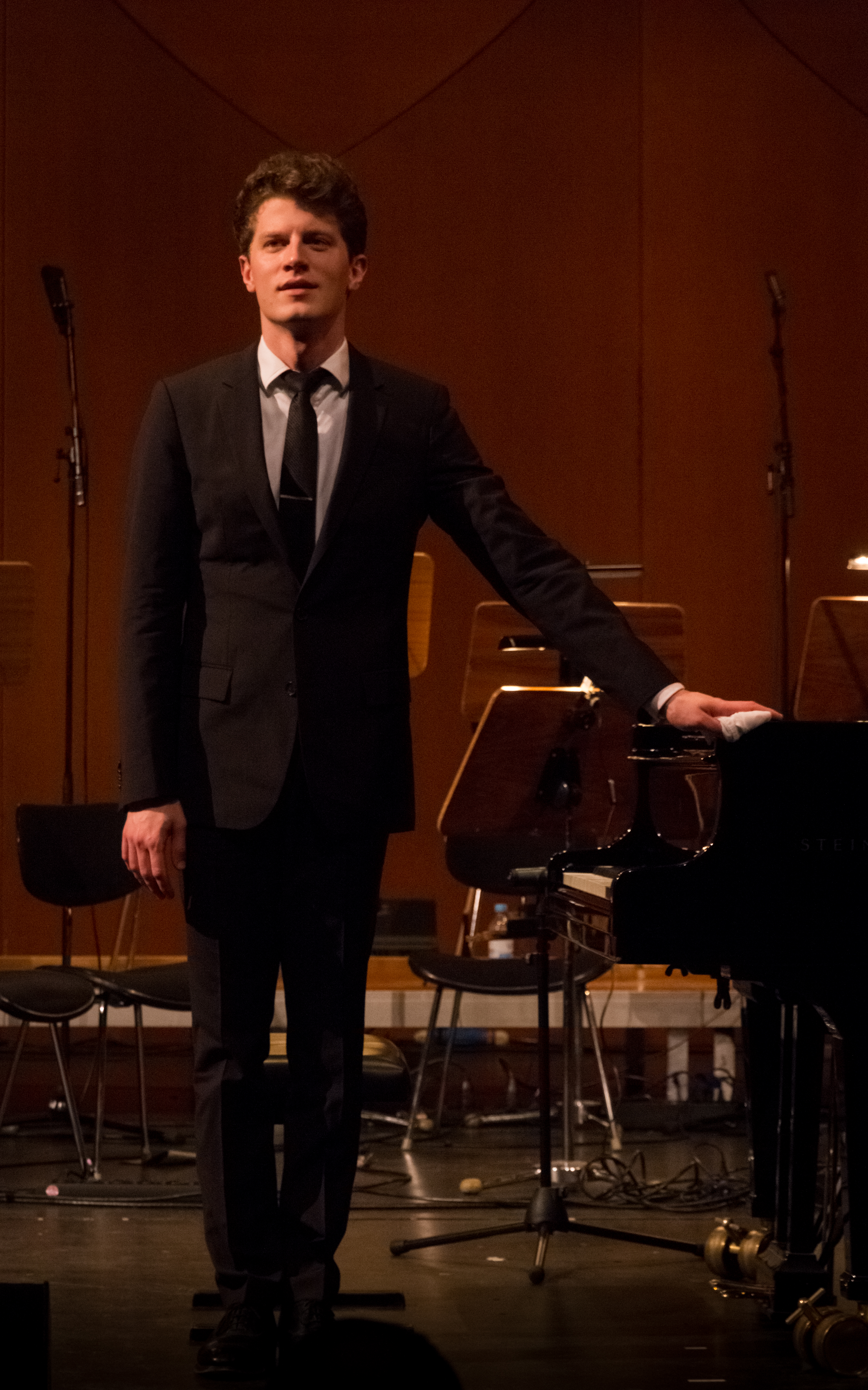 Alexander Krichel - 2015